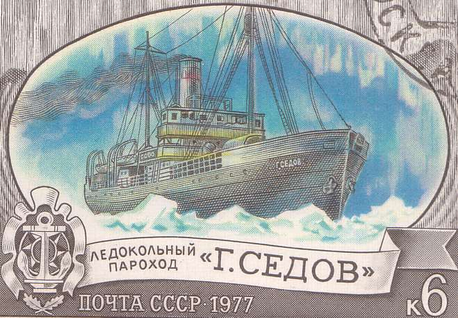 Soviet postage stamp of 6 kopecks from 1977. Ice-breaker steamship "G. Sedov".